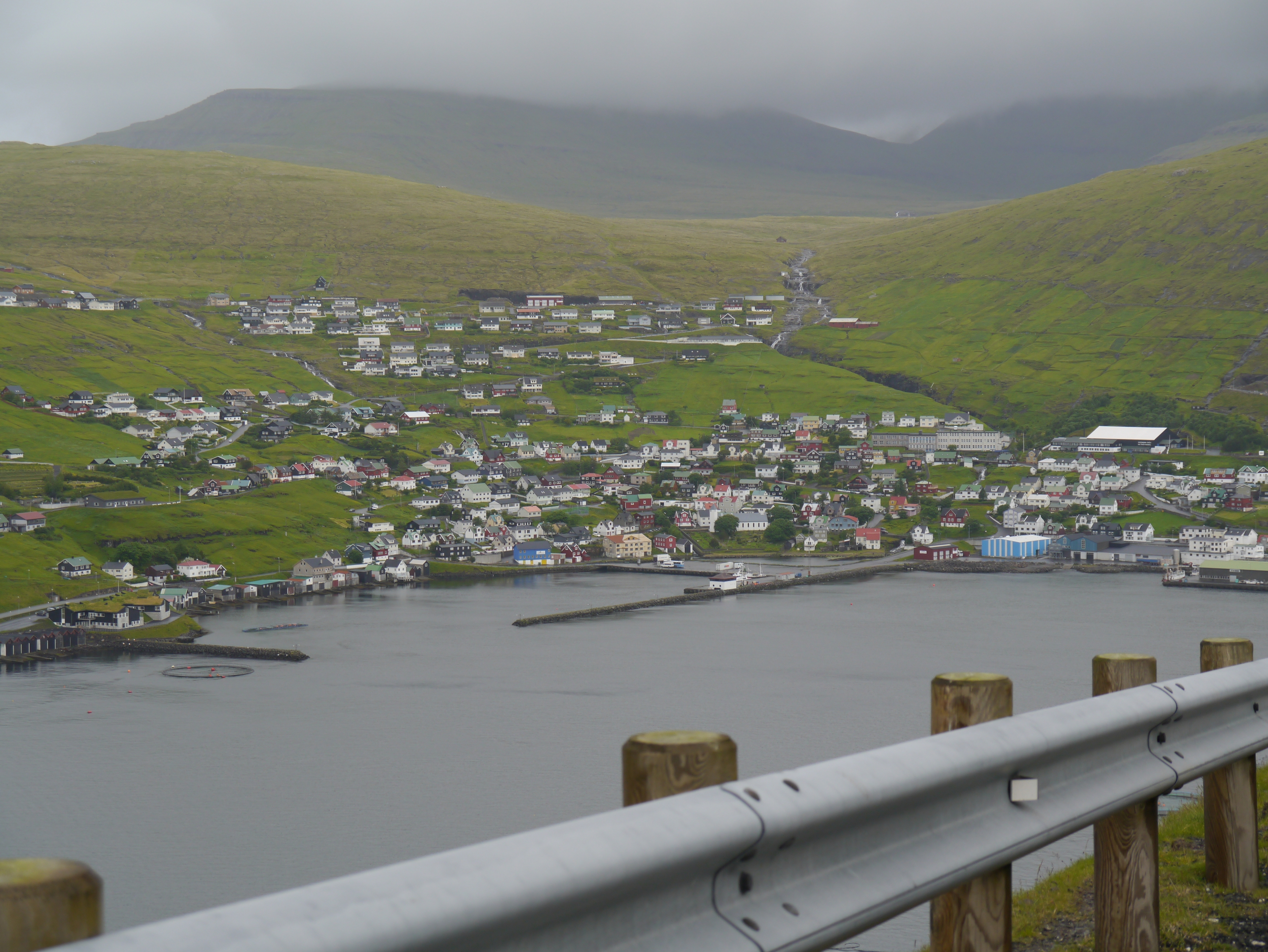 Vestmanna, Streymoy Island, Faroe Islands